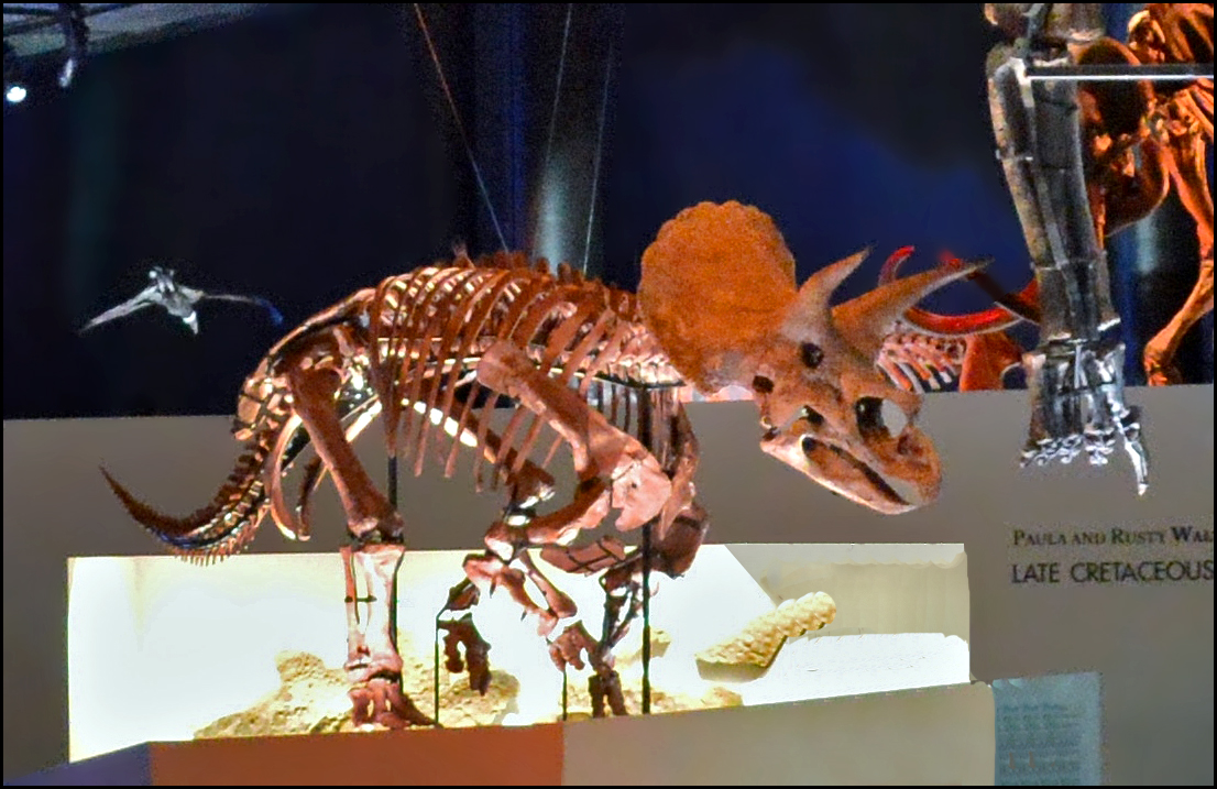 The Morian Hall of Paleontology at the Houston Museum of Natural Science.